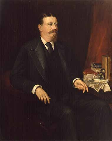 Painting of Governor William Rush Merriam Painter: Adolfo Müller-Ury (1862-1947) Art Collection, oil 1890-1895 Location no. AV1996.9.12 Negative no. 83602